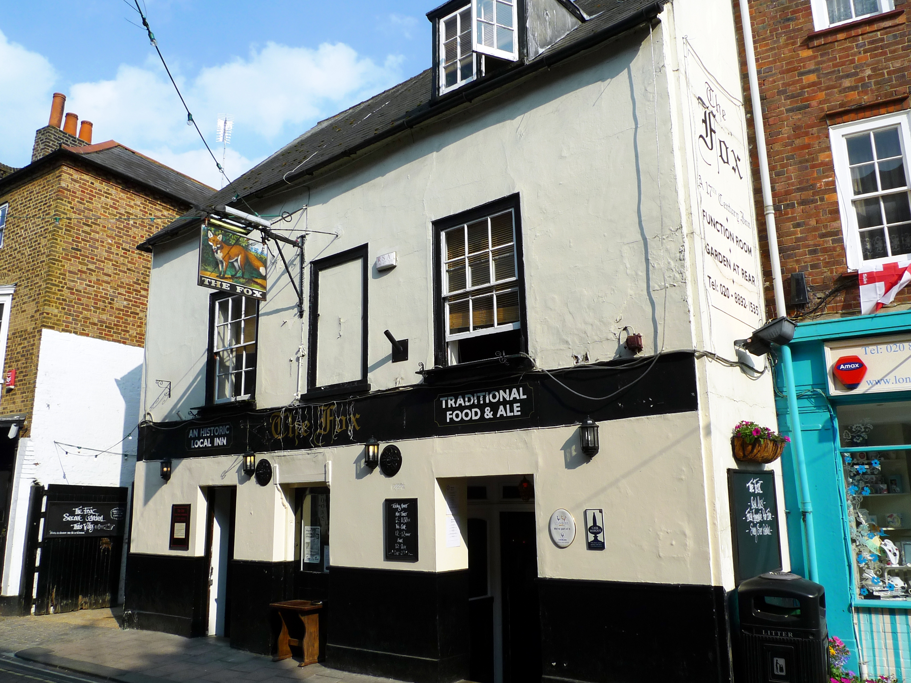 Nice-looking traditional pub. Address: 39 Church Street. Former Name(s): The Bell. Links: Randomness Guide to London Fancyapint Pubs Galore Beer in the Evening